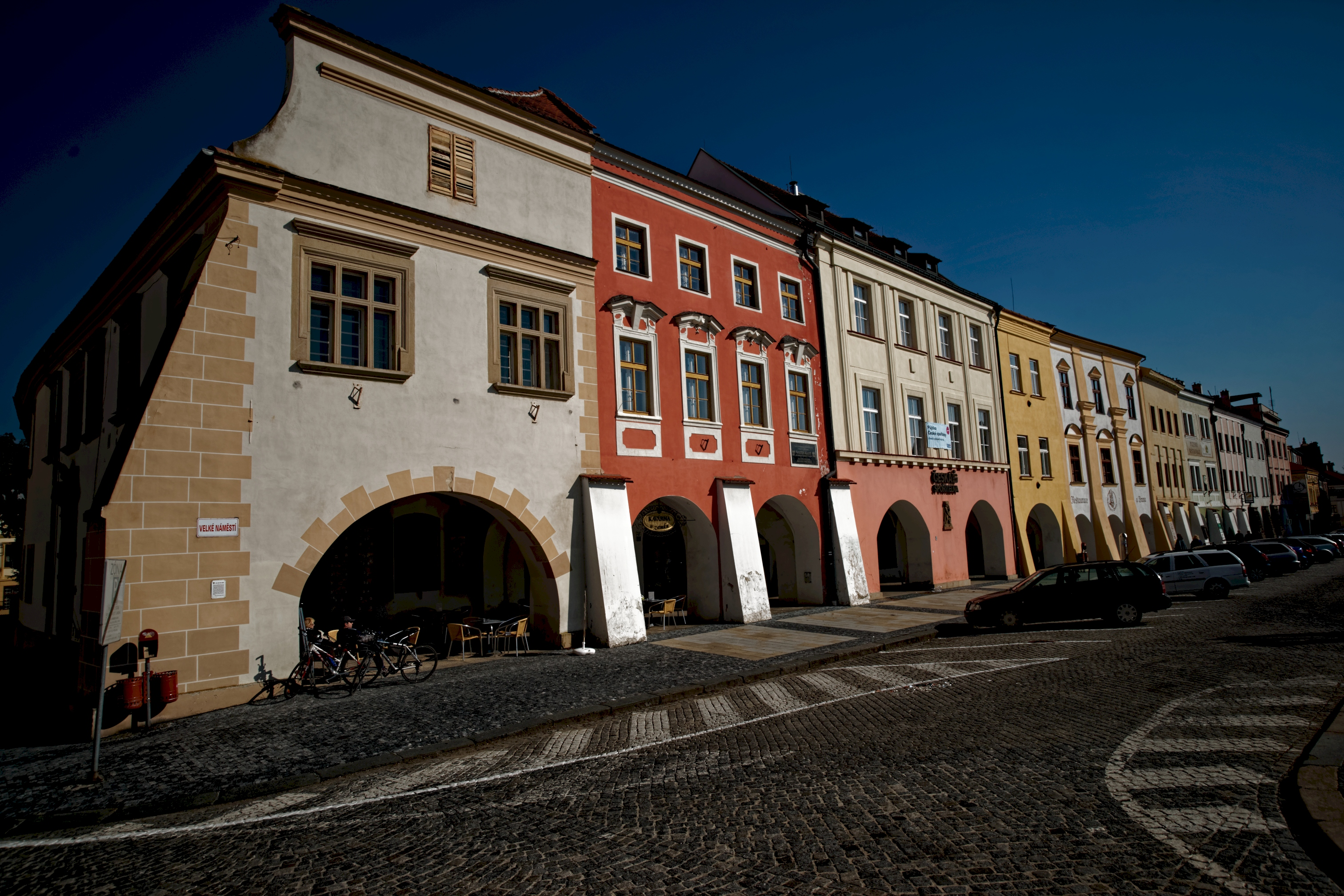 Kroměříž - Velké náměstí - View ESE